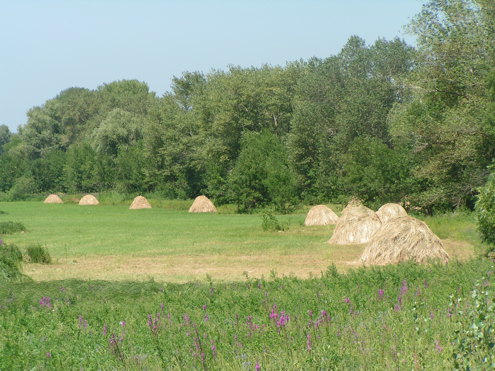 Hayfields in the Volga-Akhtubinskaya floodplain. Natural Park Volga-Akhtuba floodplain, Volgograd Region.